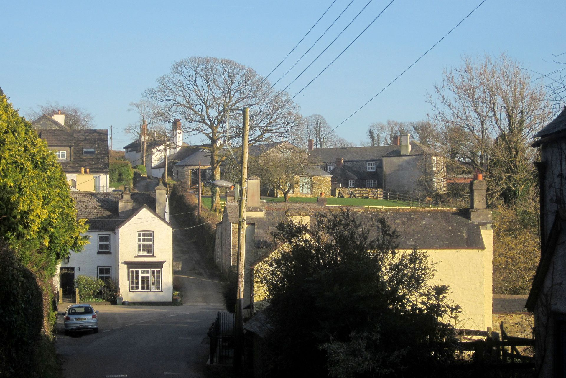 Lamerton